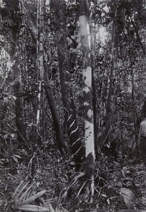 Tapping a balata tree